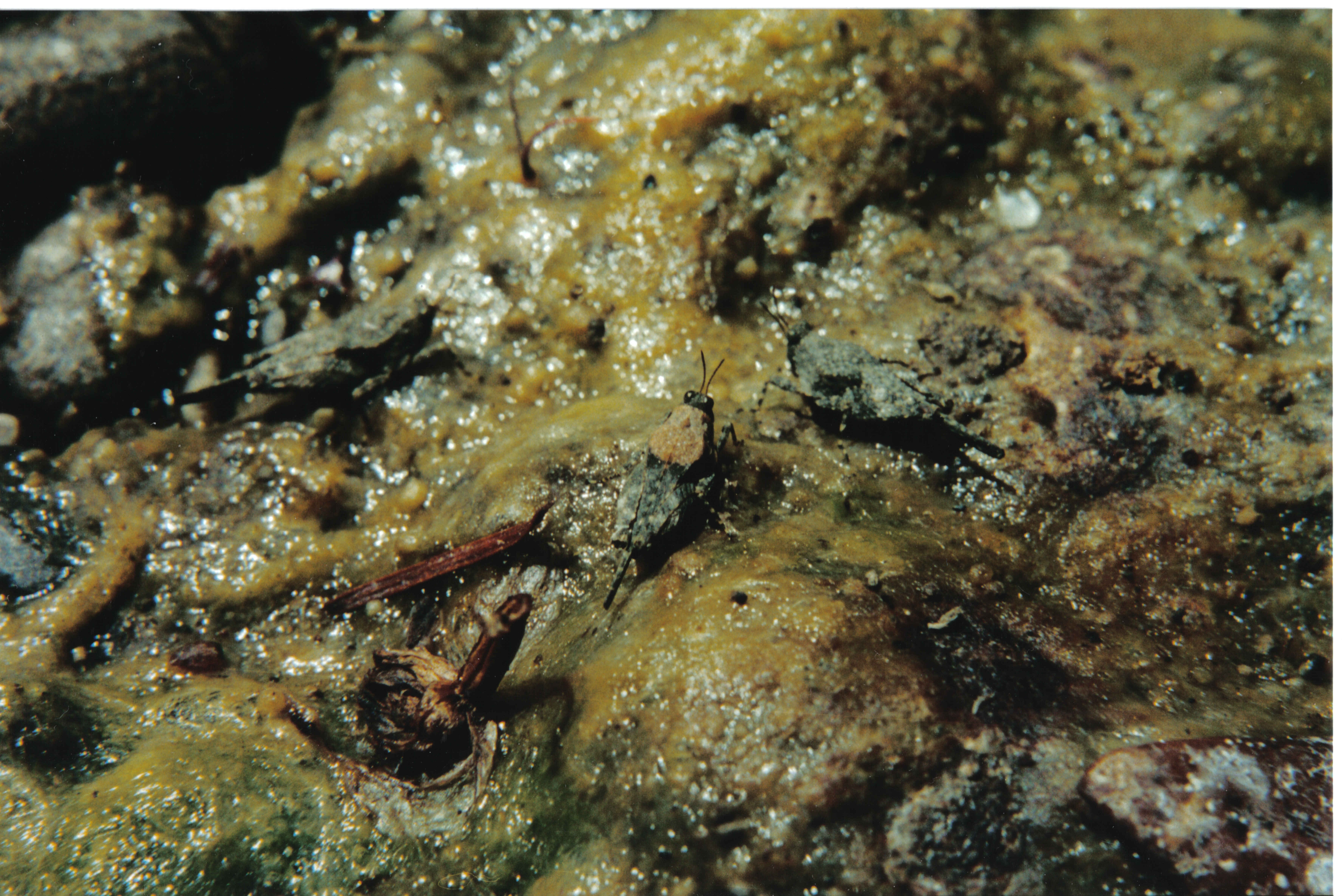 Paratettix aztecus feeding on the algae Cladophora on the bank of the Eel River, Mendocino County, California, USA